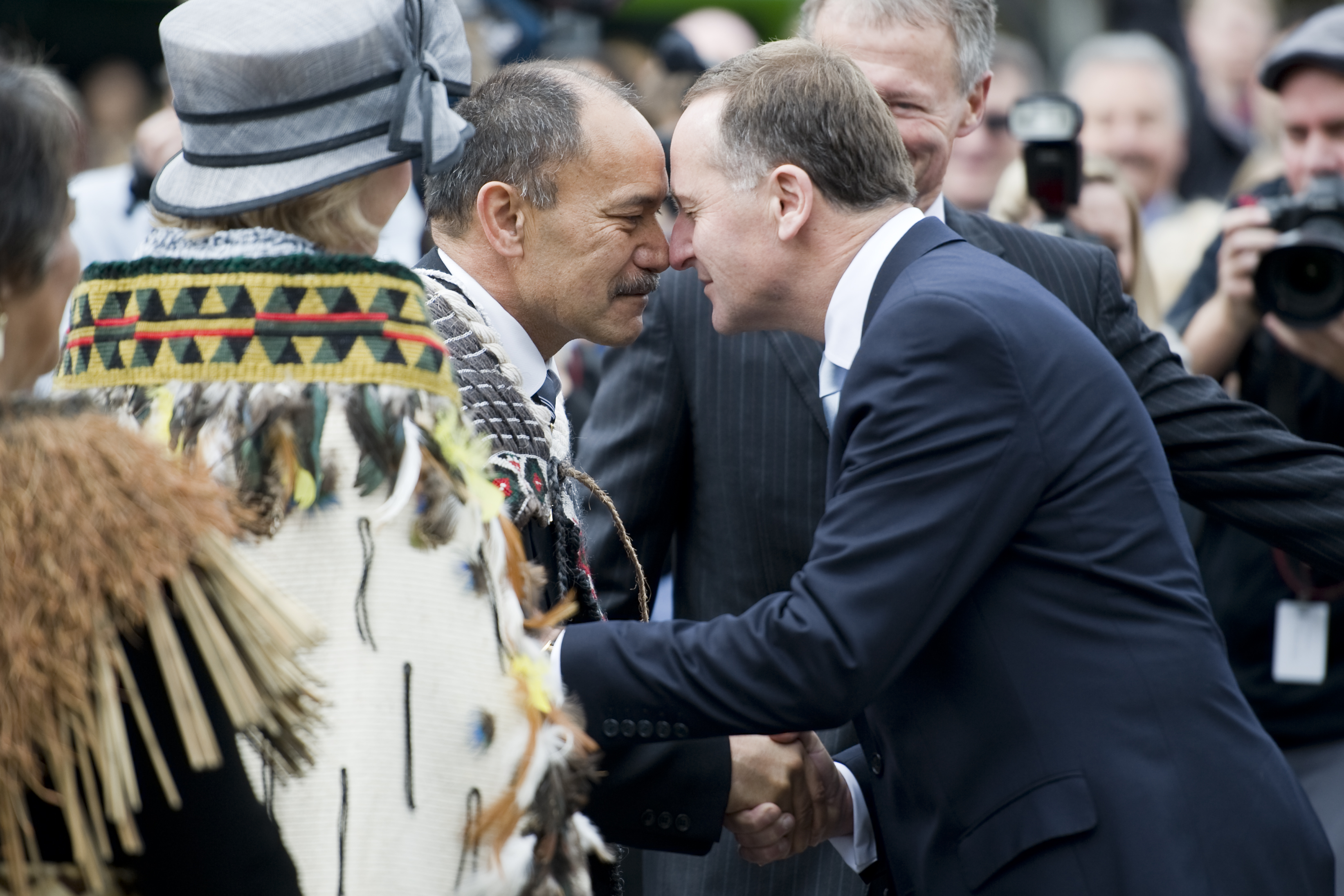 Swearing in ceremony of LTGEN Sir Jerry Mateparae as Governor-General at Parliament. The Defence Force provided a 100 man Royal Guard of Honour for the occasion. Sir Jerry arrives at Parliament to be met by the Prime Minister, Rt Hon John Key 20110831_WN_S1015650_0019.jpg